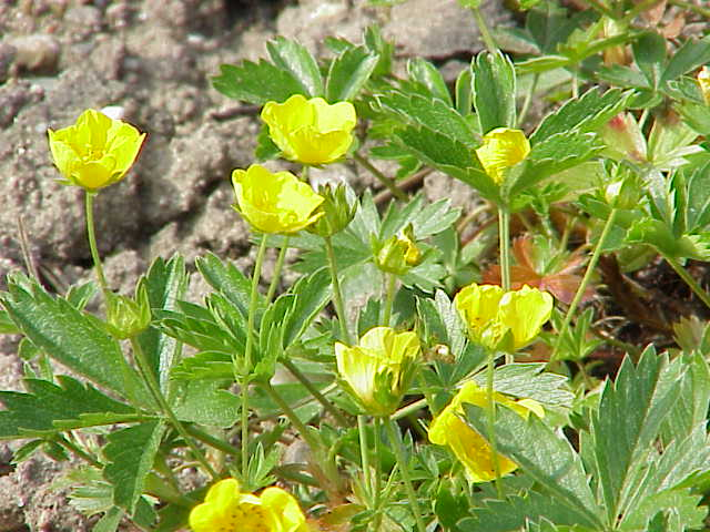 Species: Potentilla aurea Family: Rosaceae Image No. 2